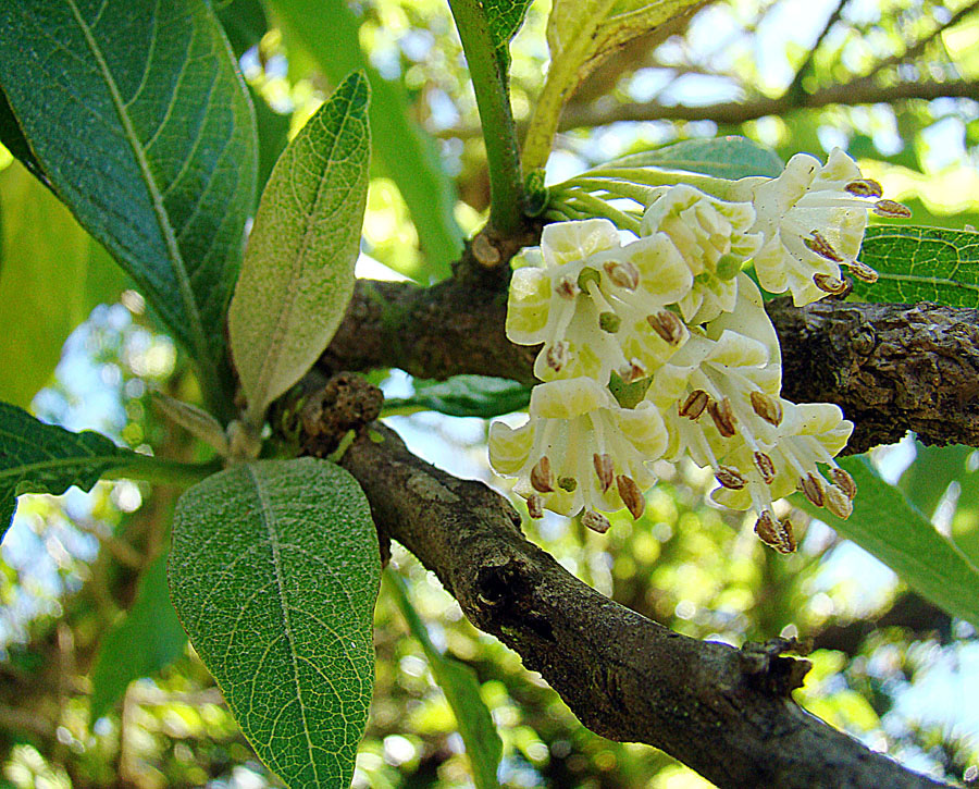 Widespread in the Neotropics with names such as Guite. Photo from Volcan Mombacho, Nicaragua. In context at